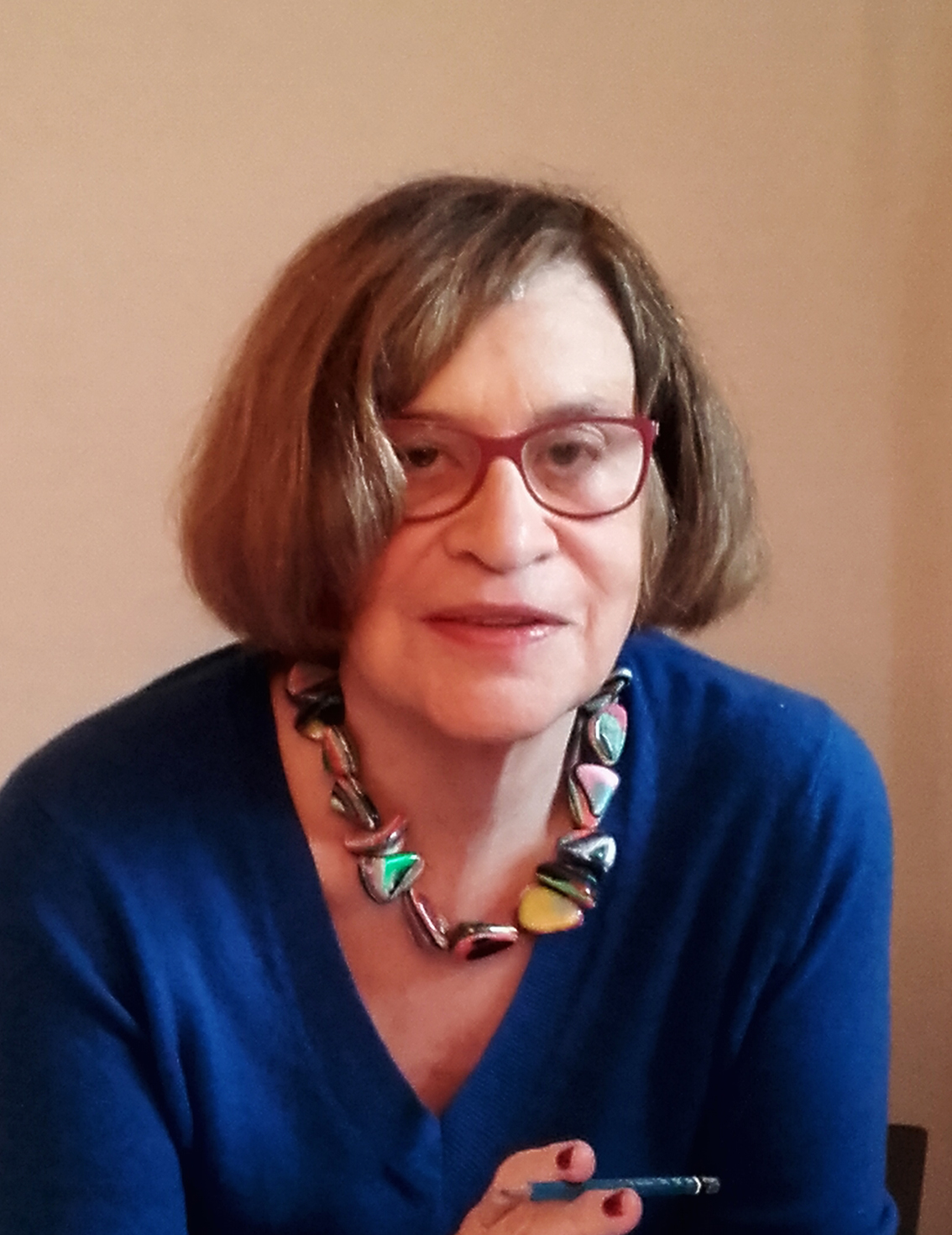 Portrait de M.C. Kesseler